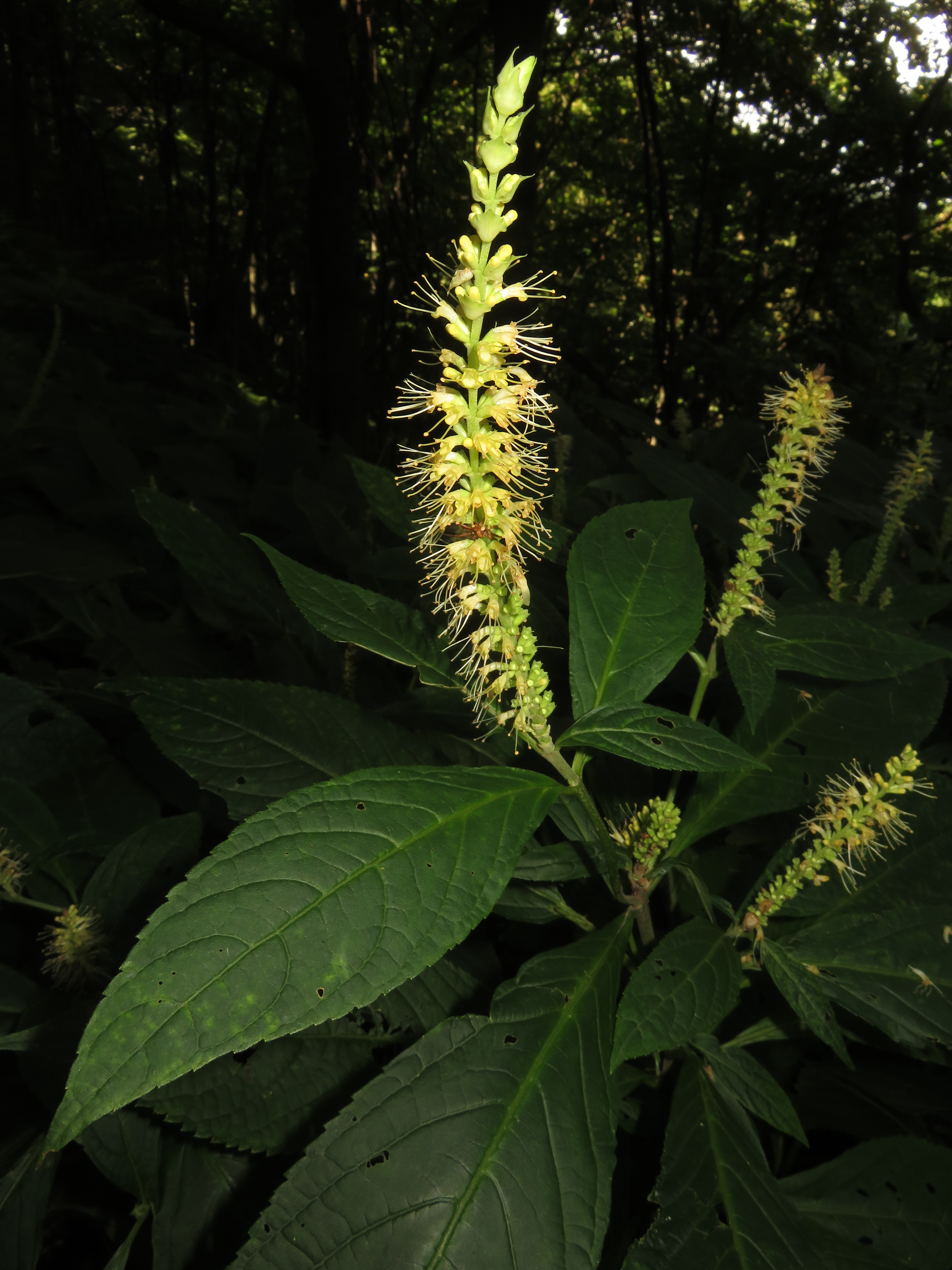 Leucosceptrum japonicum, Aizu area, Fukushima pref., Japan